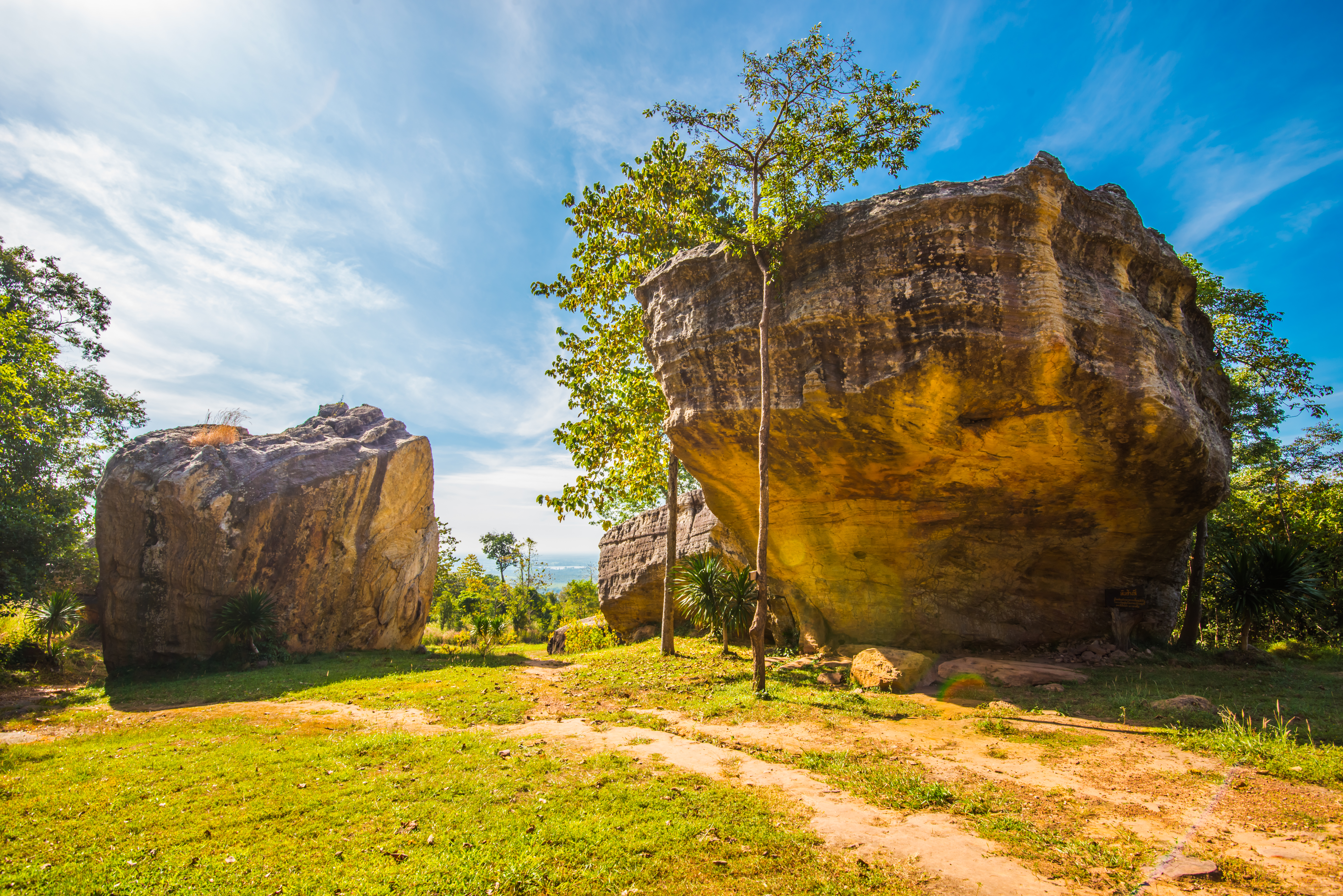 Limestone mountains are found in the countryside of Thailand.